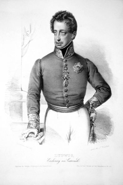 Archduke Ludwig Joseph Anton of Austria (1784-1864), son of Emperor Leopold II